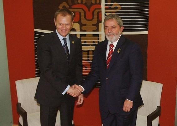 Polish prime minister Donald Tusk and president of Brasil Luiz Inácio Lula da Silva